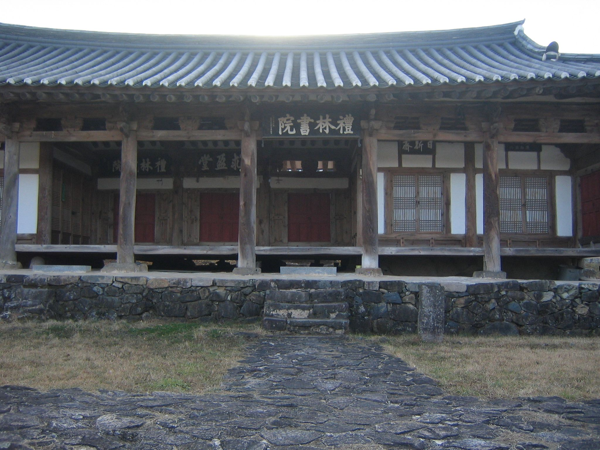 The Guyeongdang (구영당), at Yerim Seowon.